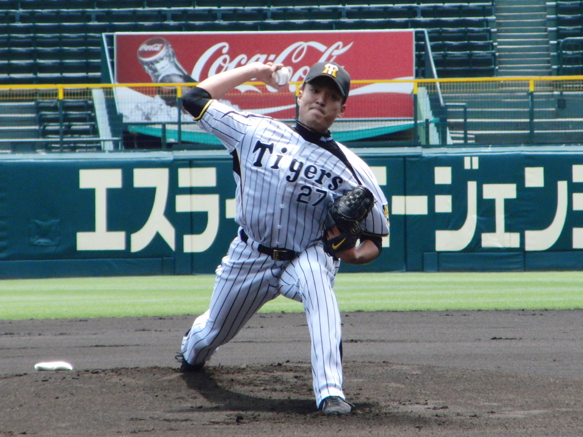 Takumi Akiyama, pitcher of the Hanshin Tigers, at Hanshin Koshien Stadium